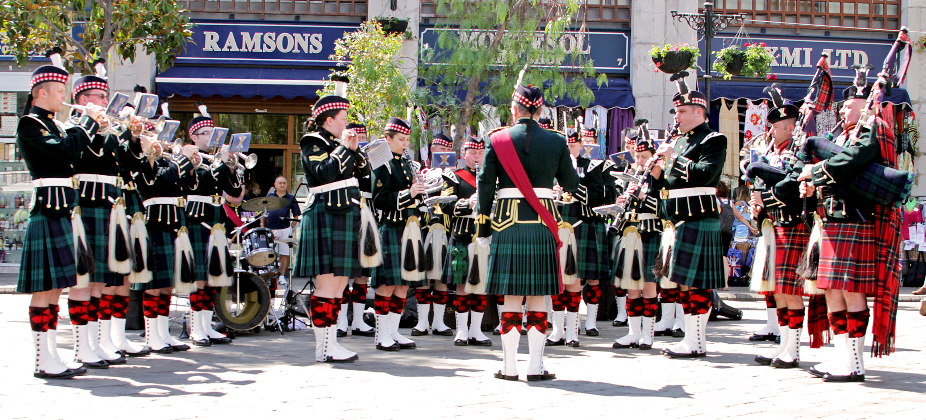 Annual Two Week Camp, the Highland Division of the Royal Regiment of Scotland came to Gibraltar in July. This was one of a few performances in Grand Casemates Square during their stay on the Rock.